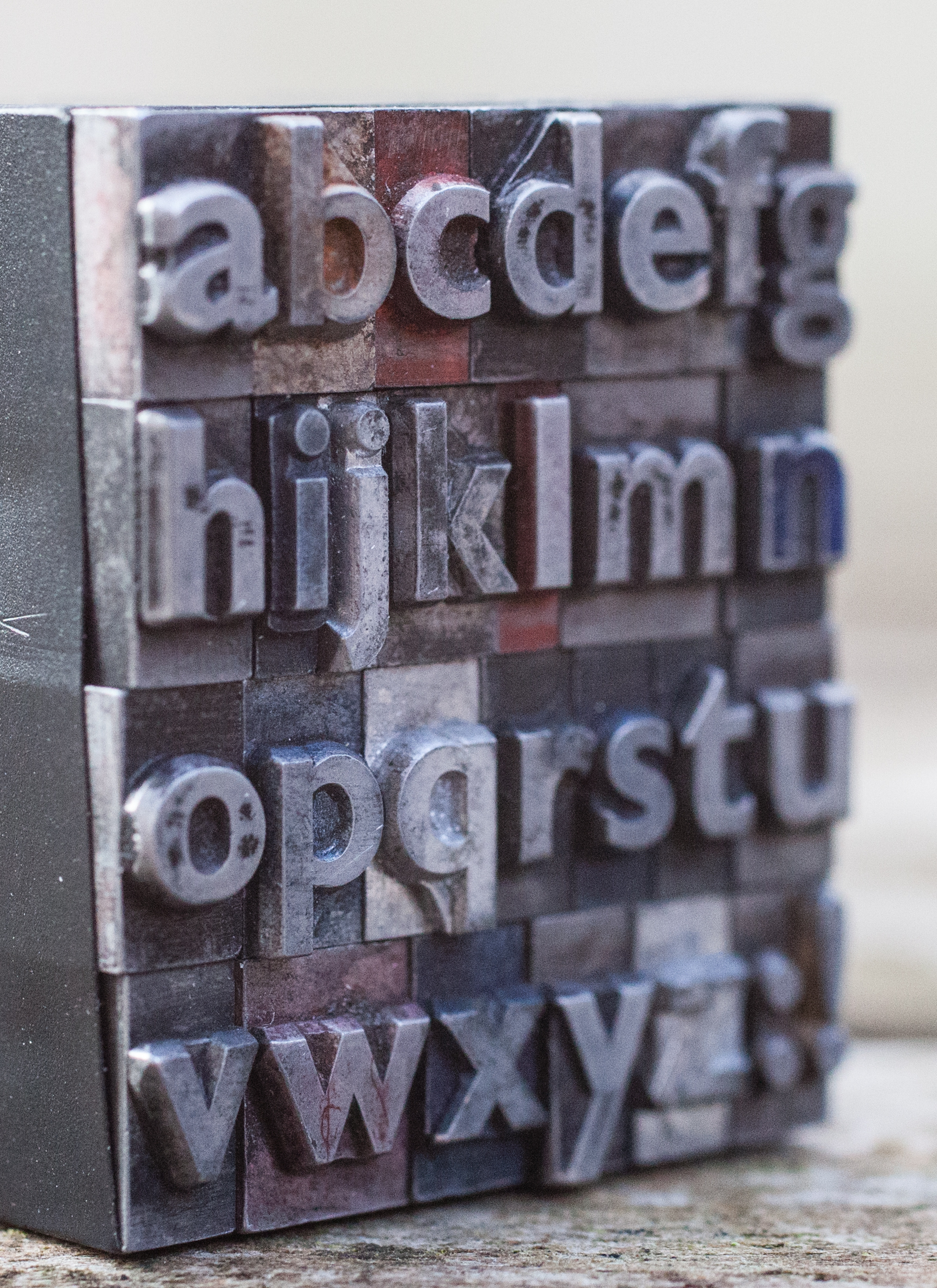 Some Gill Sans Bold metal type. The image has been mirrored to show the letterforms.